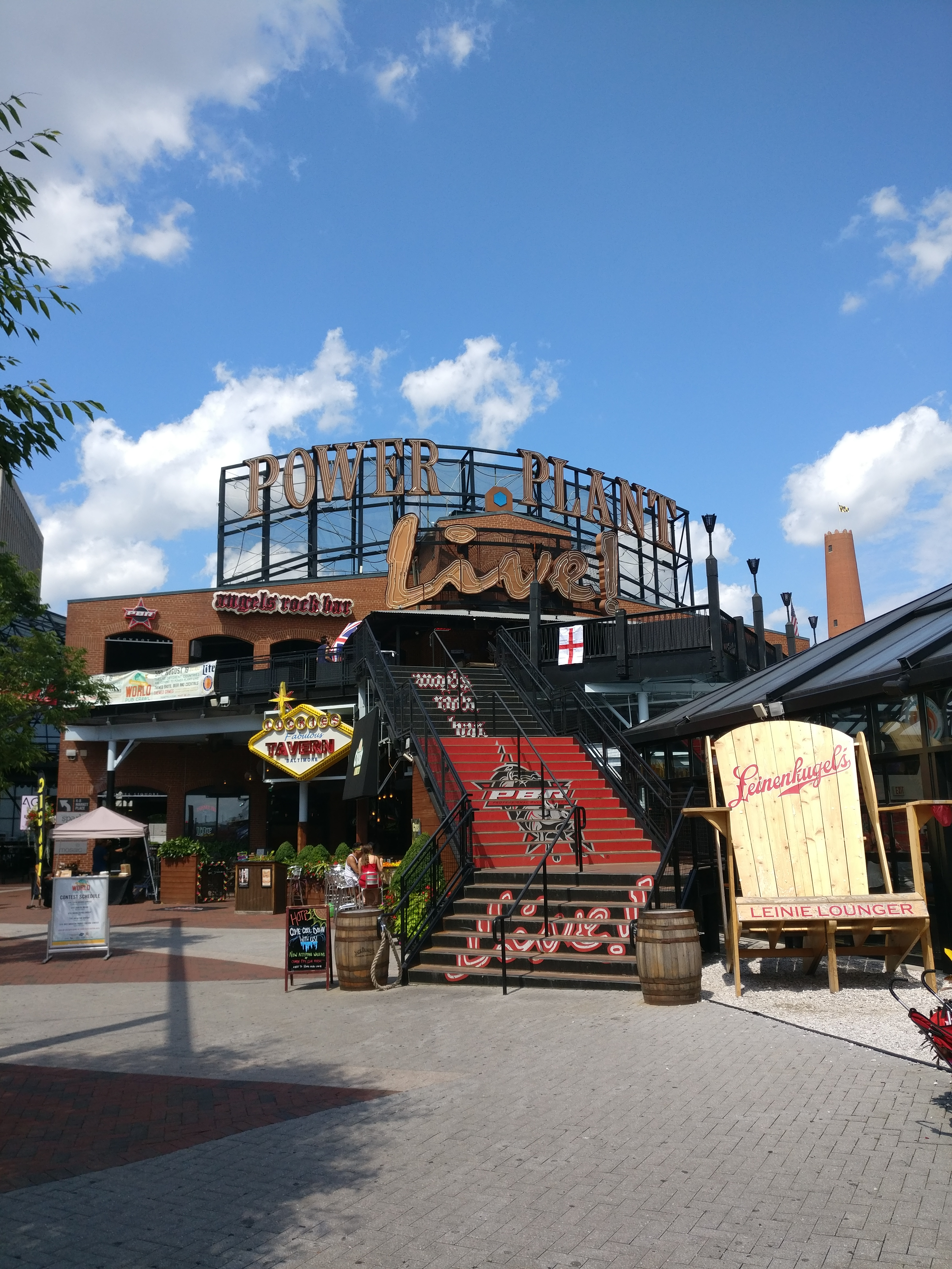 Bar and entertainment